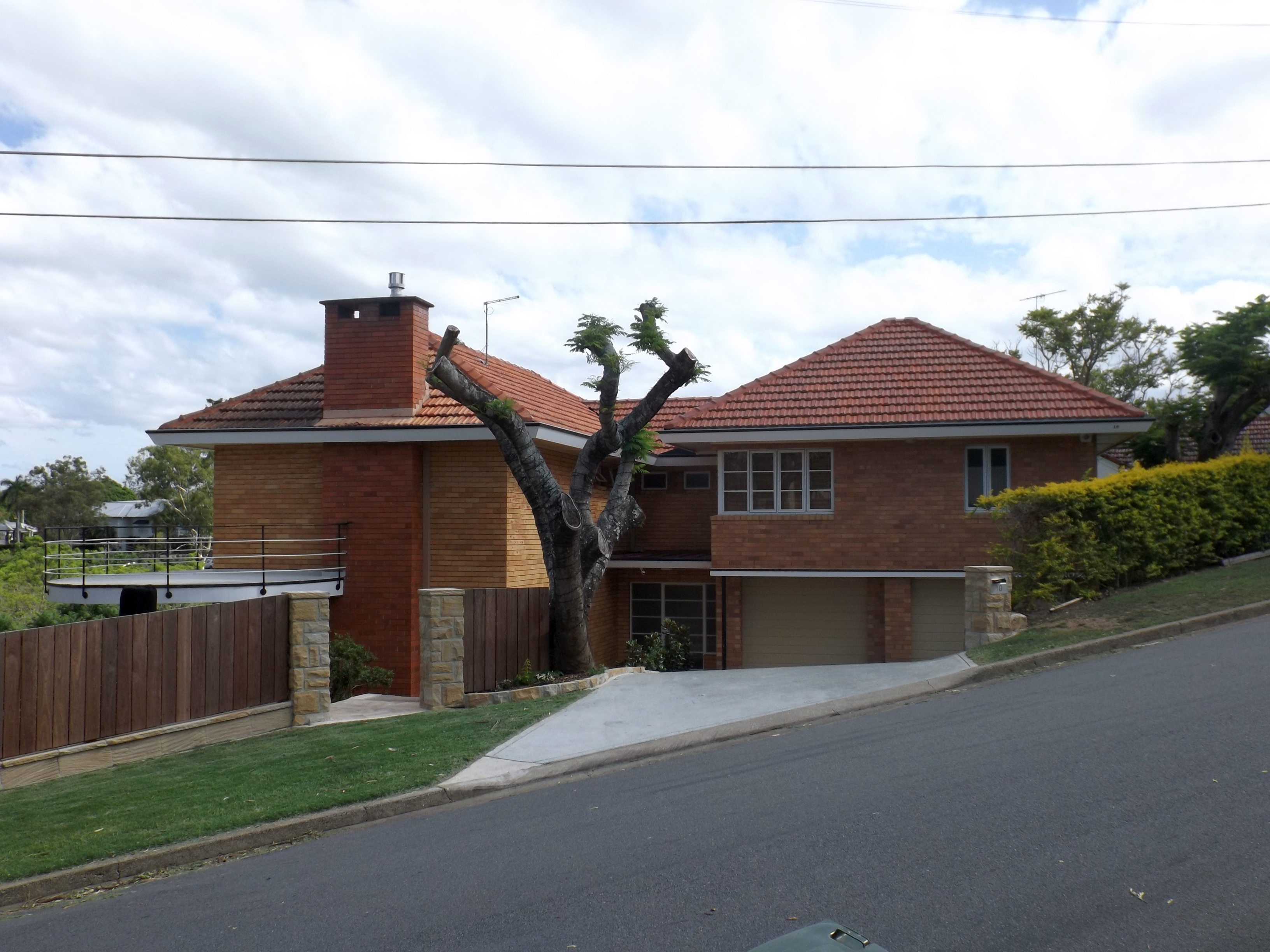 Photo of Fulton Residence at Taringa, Brisbane, Queensland, Australia.